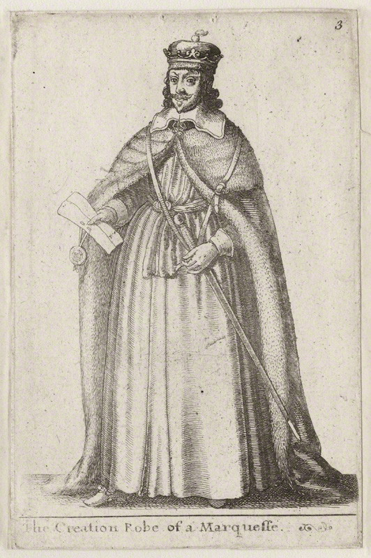 Etching of James Hamilton, 1st Duke of Hamilton after Unknown artist